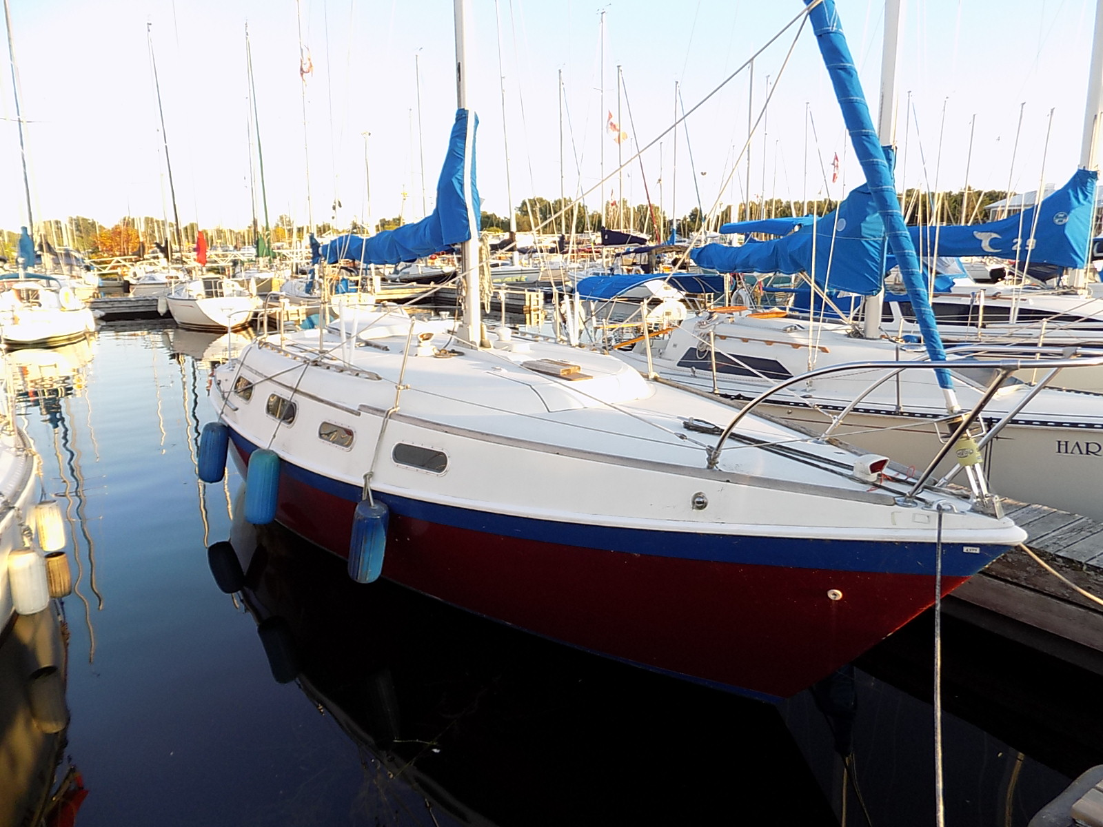 A Tanzer 28 sailboat named Lemug.